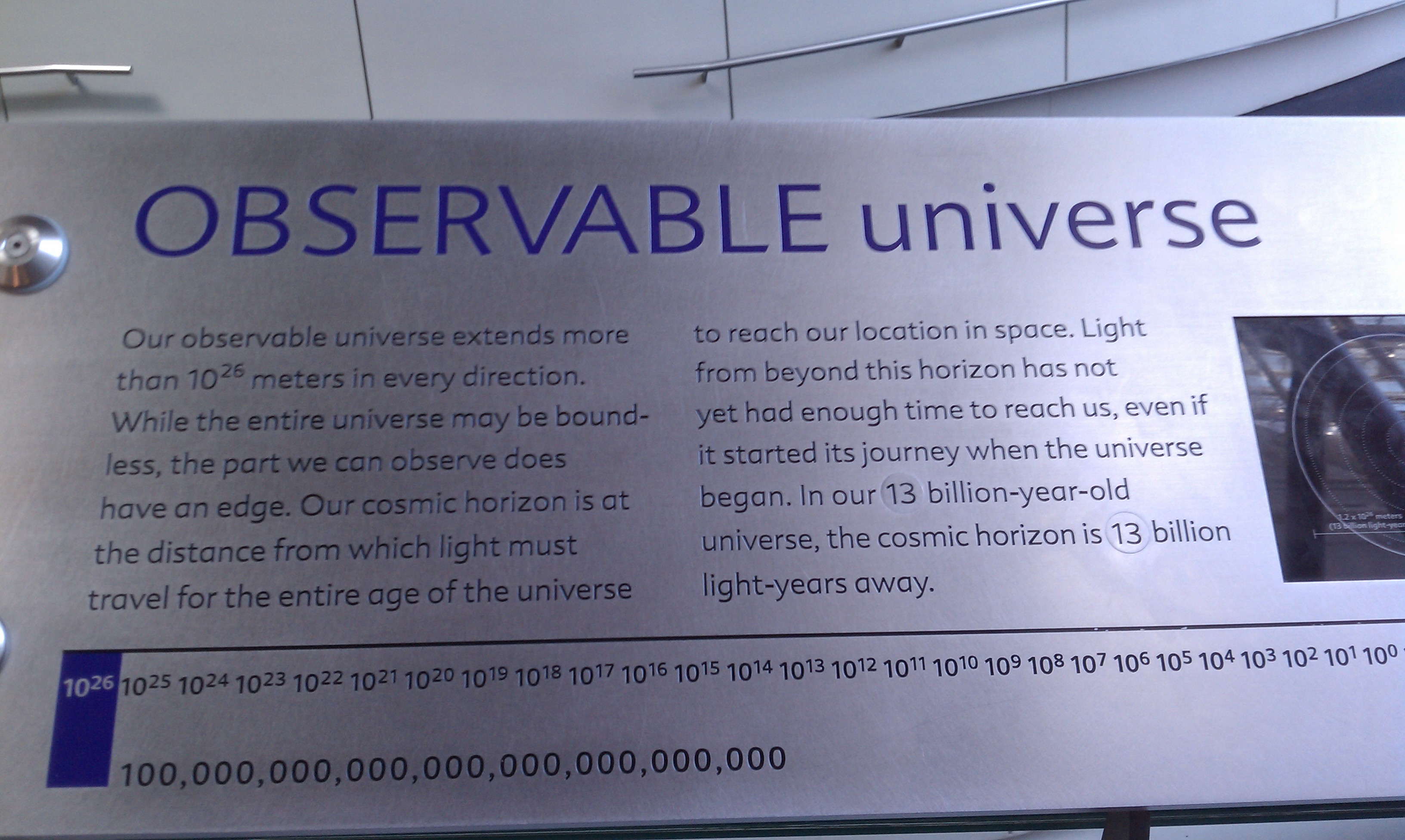 A plaque at the Rose Center for Earth and Space, New York City, which has a common but incorrect figure for the distance to the edge of the observable universe. Picture taken in April 2011.